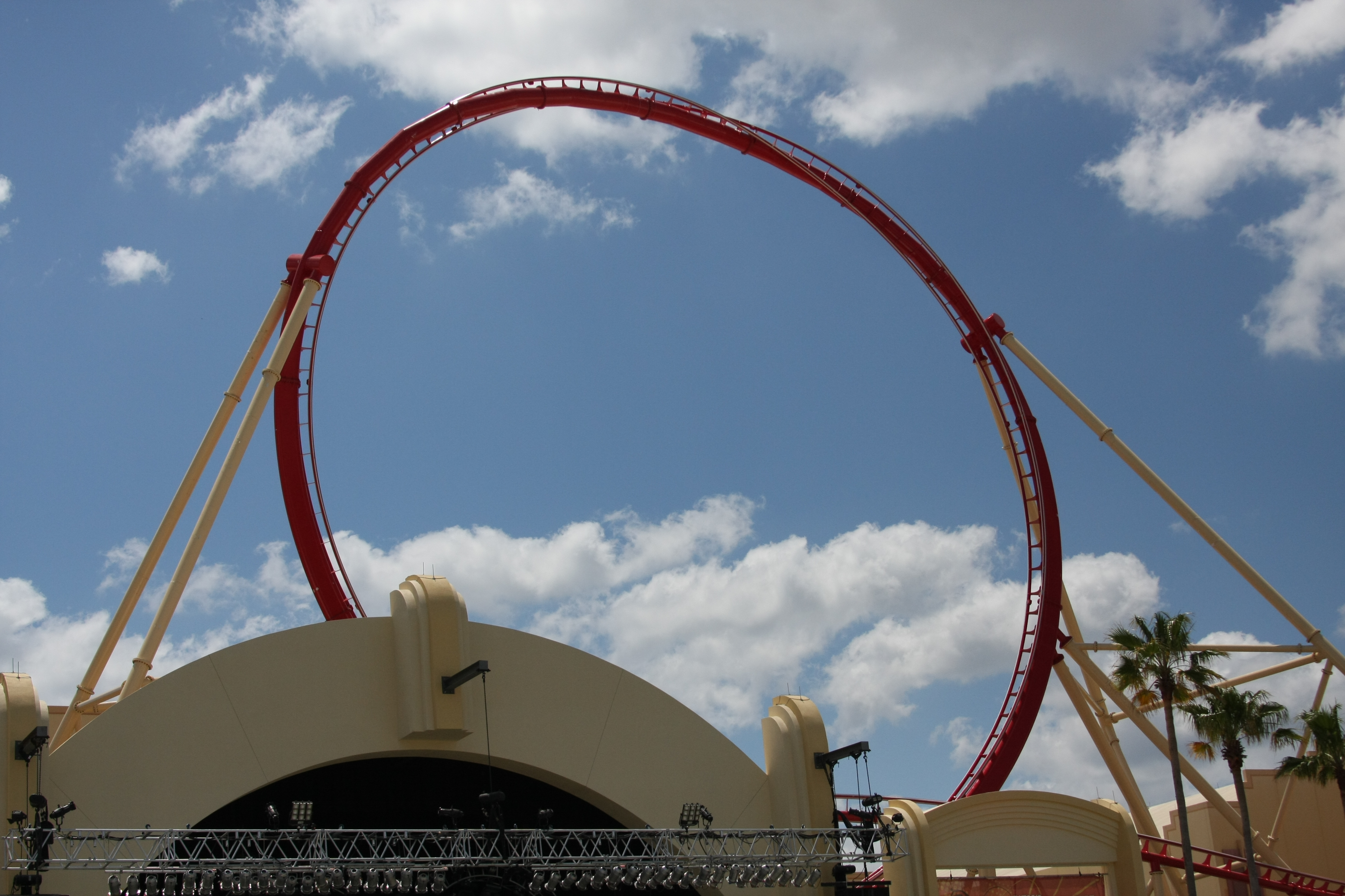 Construction of Hollywood Rip Ride Rockit roller coaster at Universal Studios Florida in Orlando